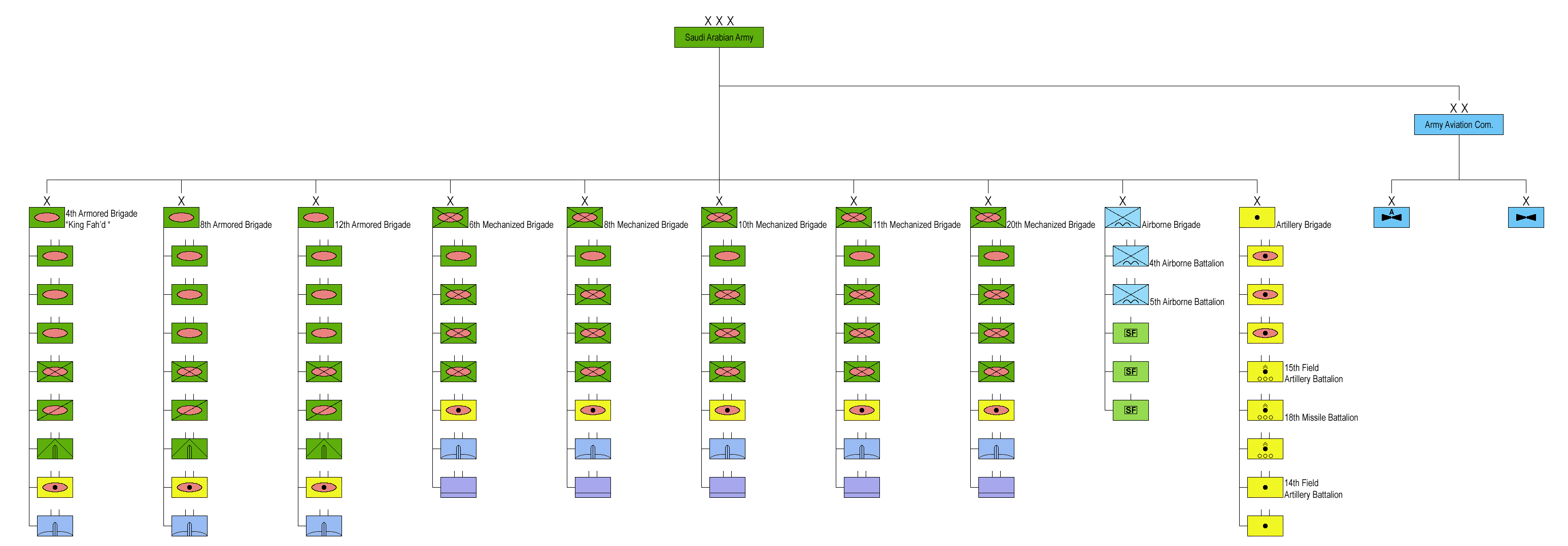 Structure of the Saudi Arabian Army